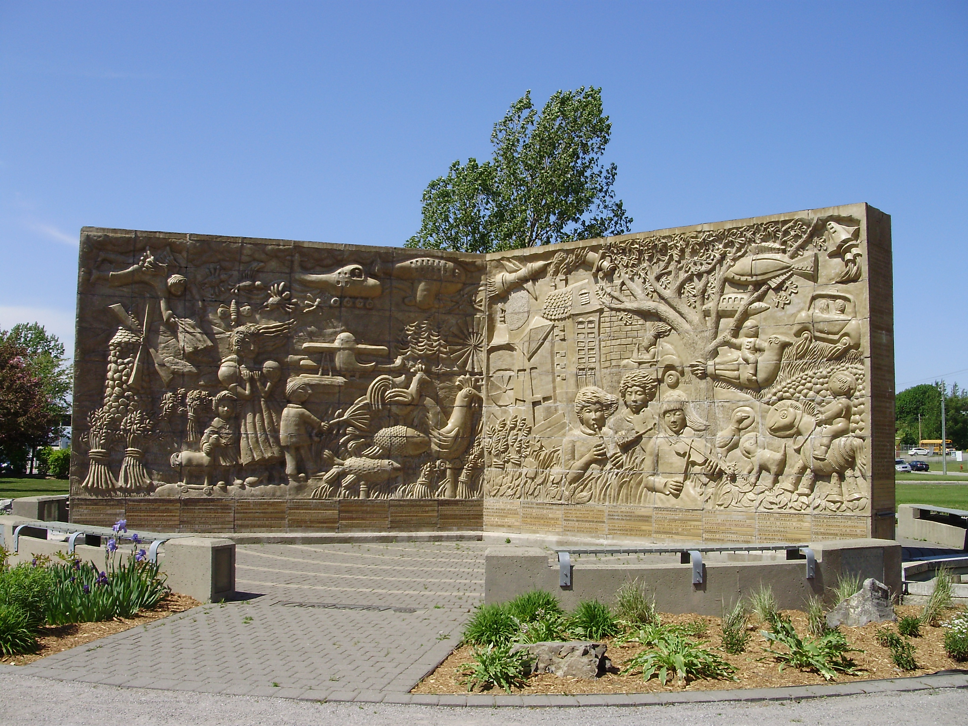 The Millennium Trimural (2000) to Rimouski, Quebec, Canada by Roger Langevin sculptor 2010-07-15